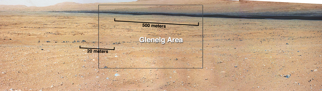 PIA16154: On the Road to Glenelg (Annotated) This mosaic from the Mast Camera on NASA's Curiosity rover shows the view looking toward the "Glenelg" area, where three different terrain types come together. All three types are observed from orbit with the High-Resolution Imaging Science Experiment (HiRISE) camera on NASA's Mars Reconnaissance Orbiter. By driving there, Curiosity will be able to explore them. One of the three terrain types is light-toned with well-developed layering, which likely records deposits of sedimentary materials. There are also black bands that run through the area and might constitute additional layers that alternate with the light-toned layers. The black bands are not easily seen from orbit and are on the order of about 3.3-feet (1-meter) thick. Both of these layer types are important science targets. This mosaic is composed of seven images. The Mastcam 34-millimeter camera took a series of four images; embedded within that series is a second set of three images taken with the Mastcam 100-millimeter camera.